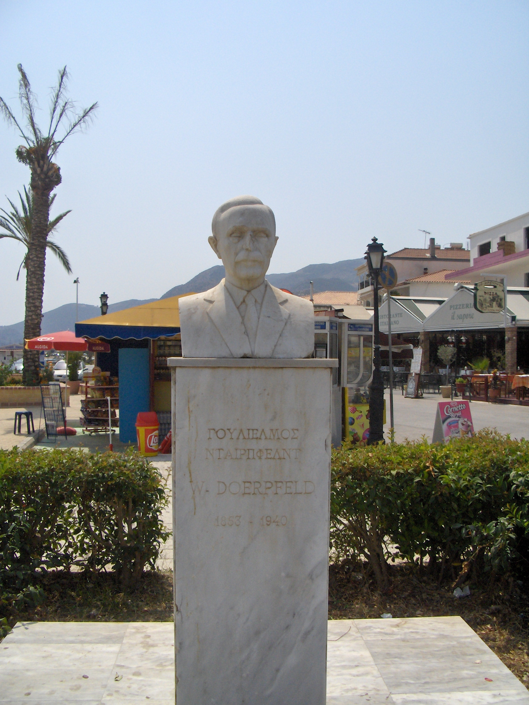 Bust of Wilhelm Doerpfeld, archeologist. Nydri, Lefkada, Greece.